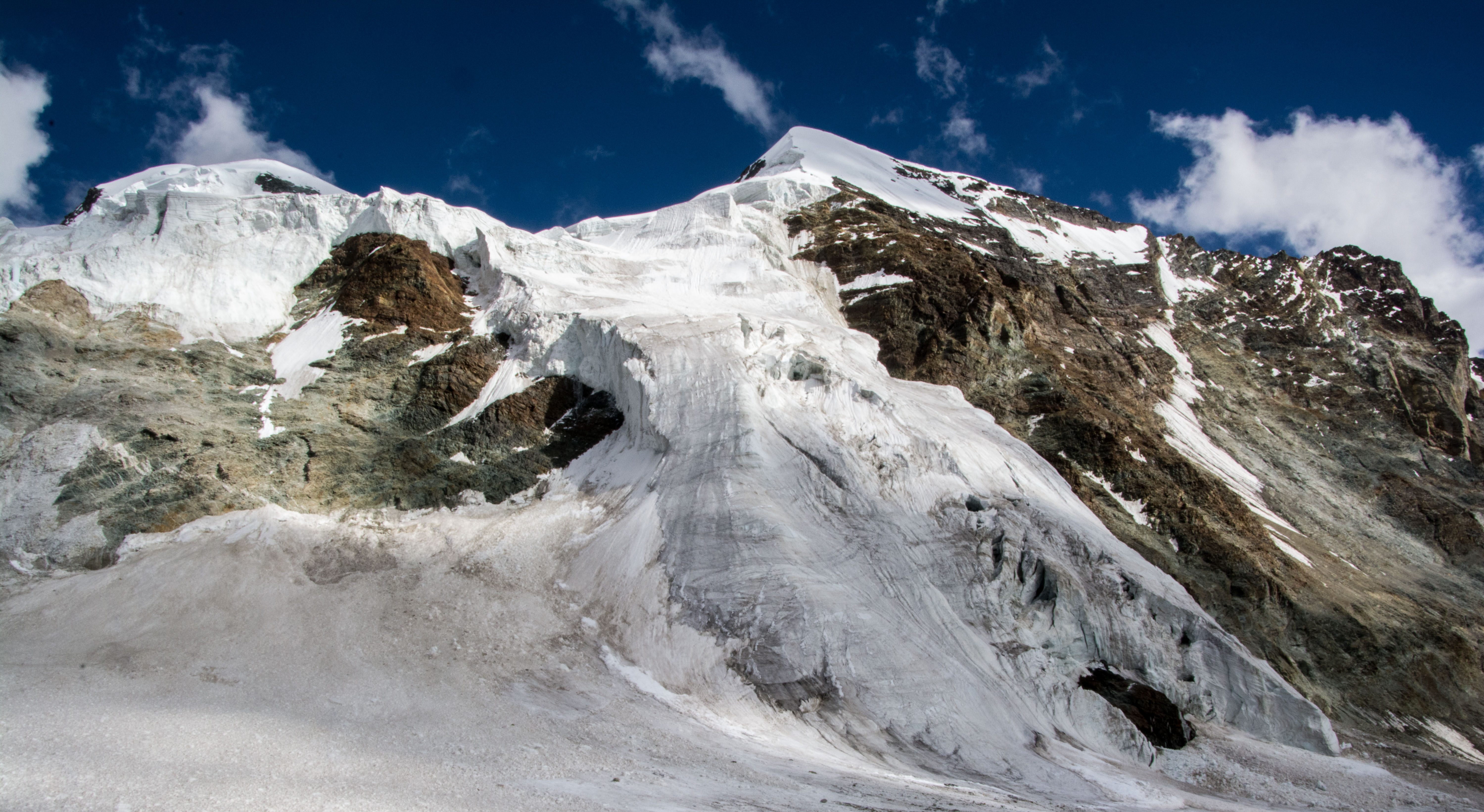 Nature, scene, geography of Uttarakhand North India